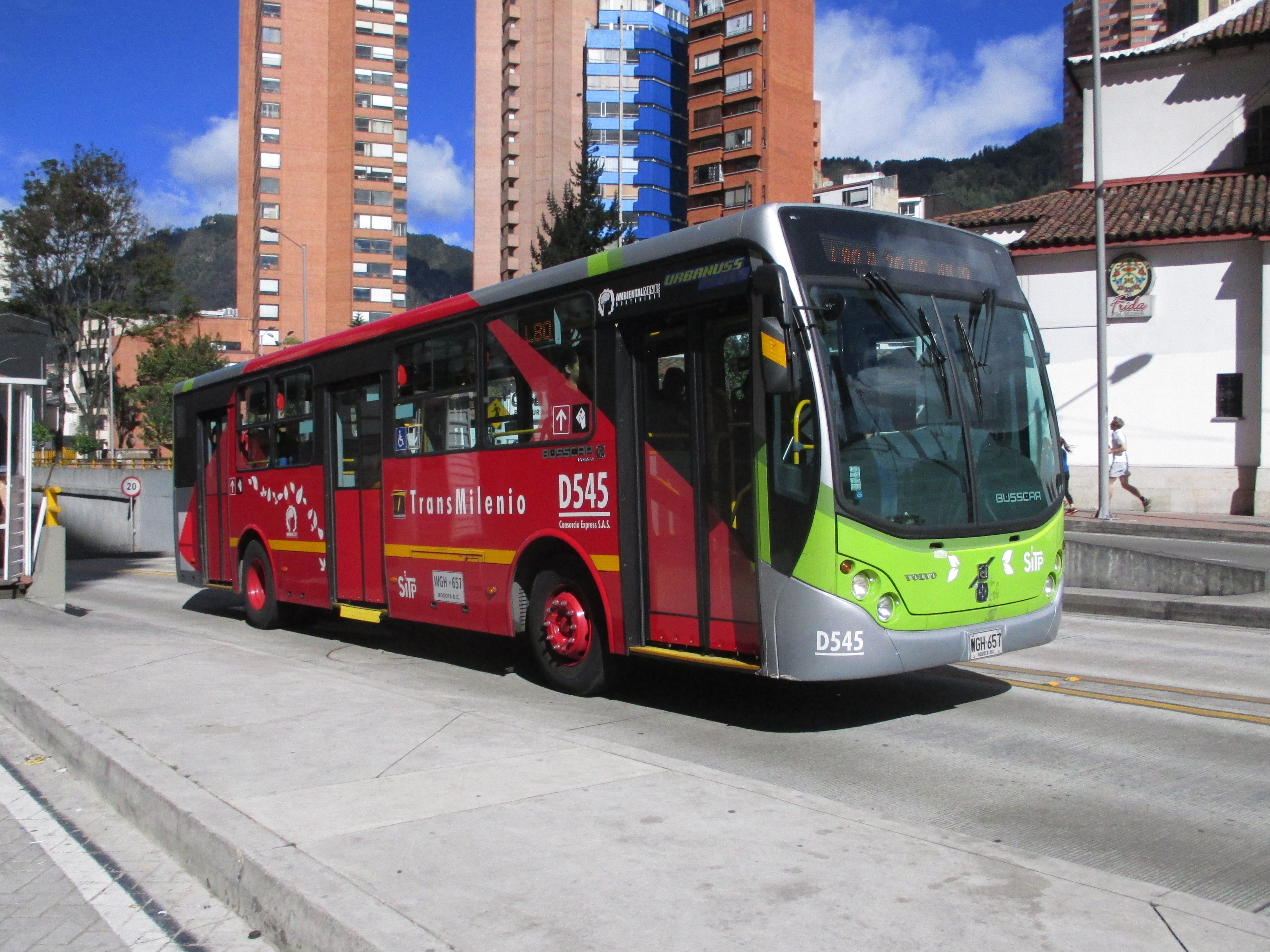 Bogotá